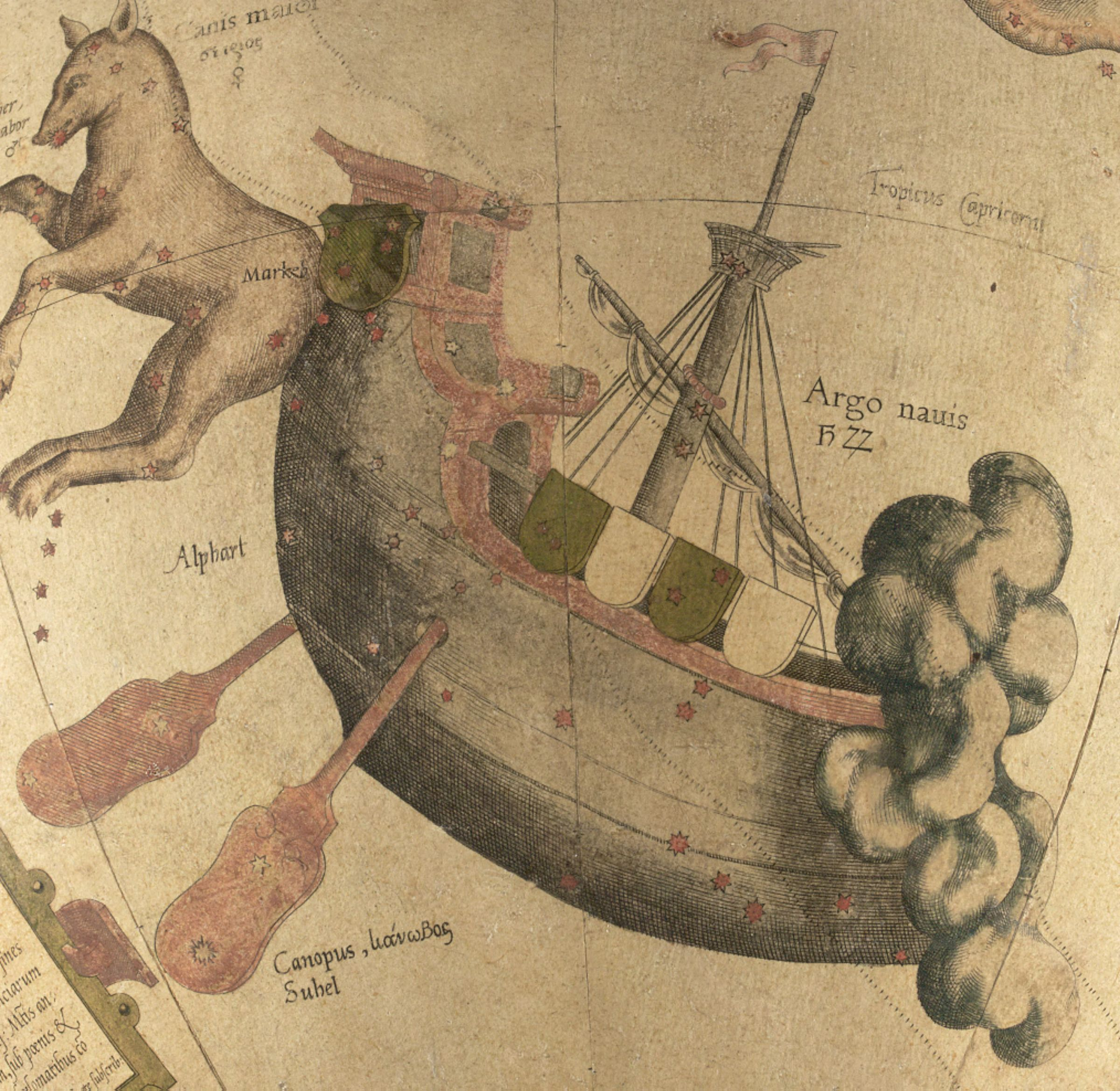 Argo Navis constellations from the Mercator celestial globe.